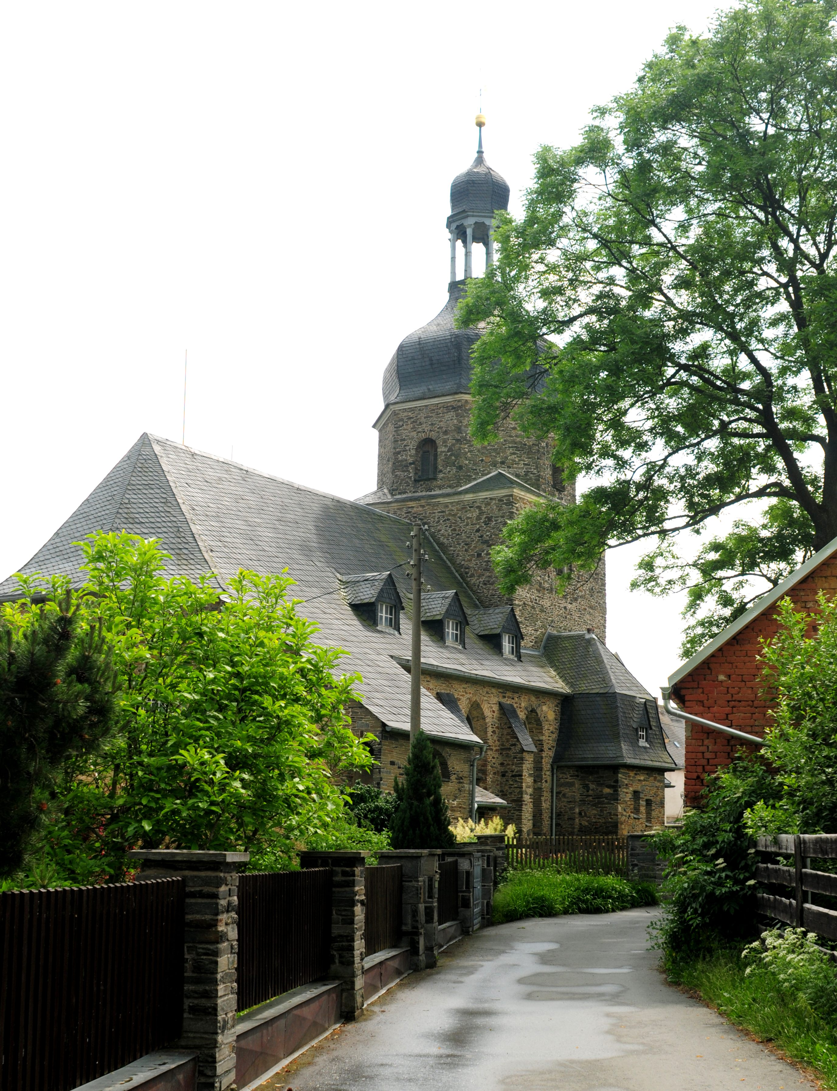 Theuma, parish church, built 1400, rebuilt 1647, church spire 1671 (district Vogtlandkreis, Free State of Saxony, Germany)